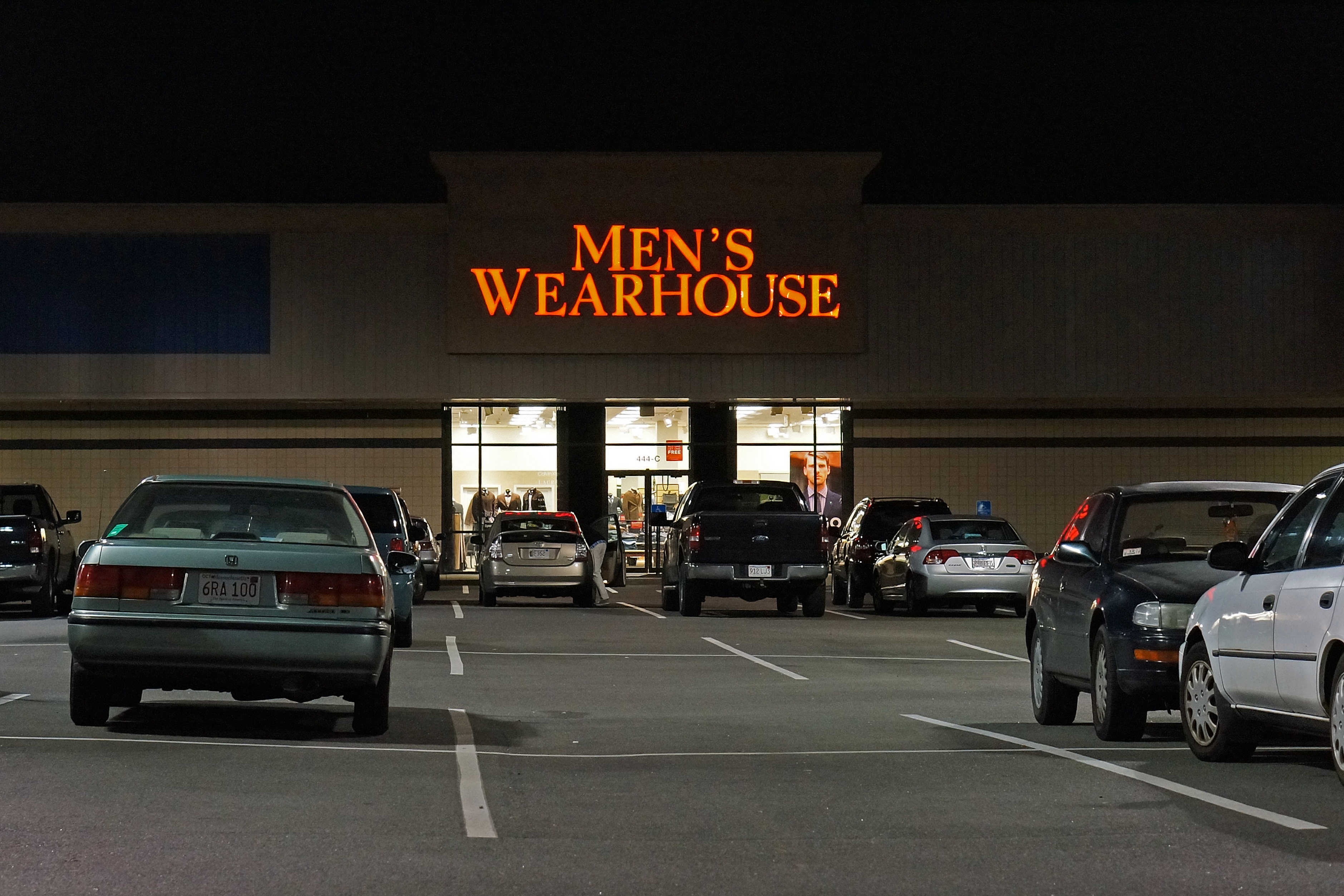 Mens Wearhouse clothing store